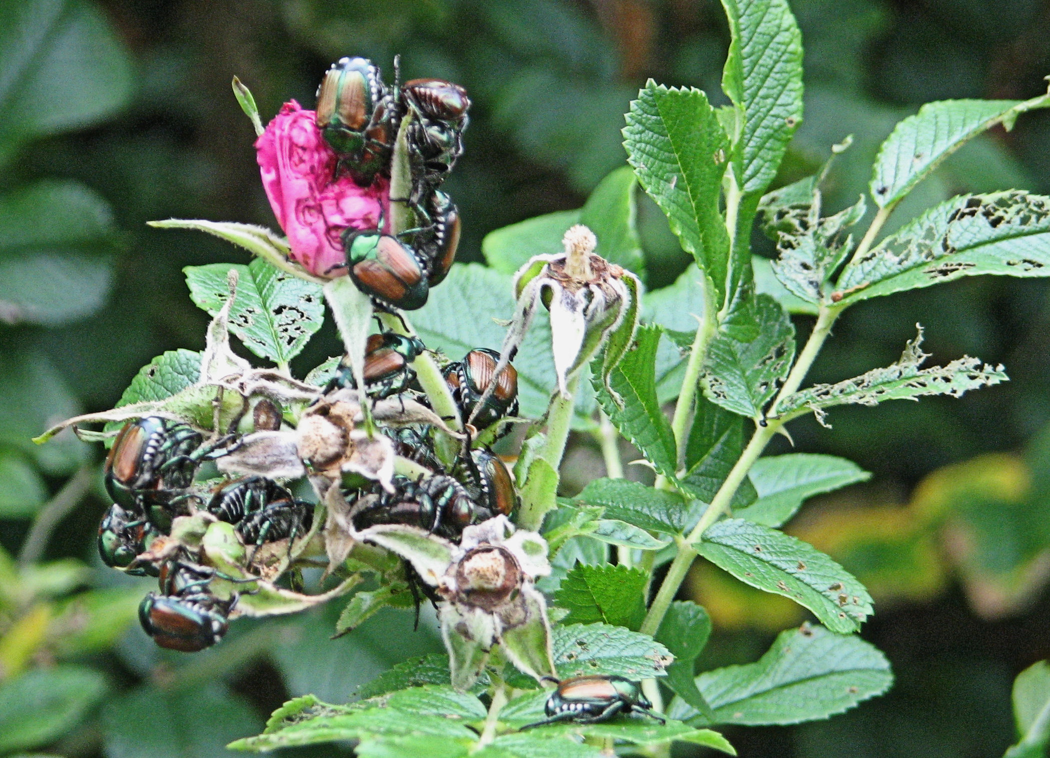 Japanese Beetles (Popillia japonica) on Pasture Rose, Ottawa, Ontario, Canada